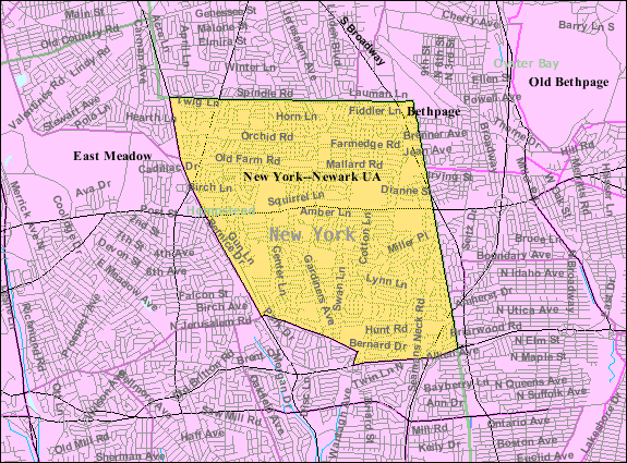 U.S. Census 2000 reference map for Levittown